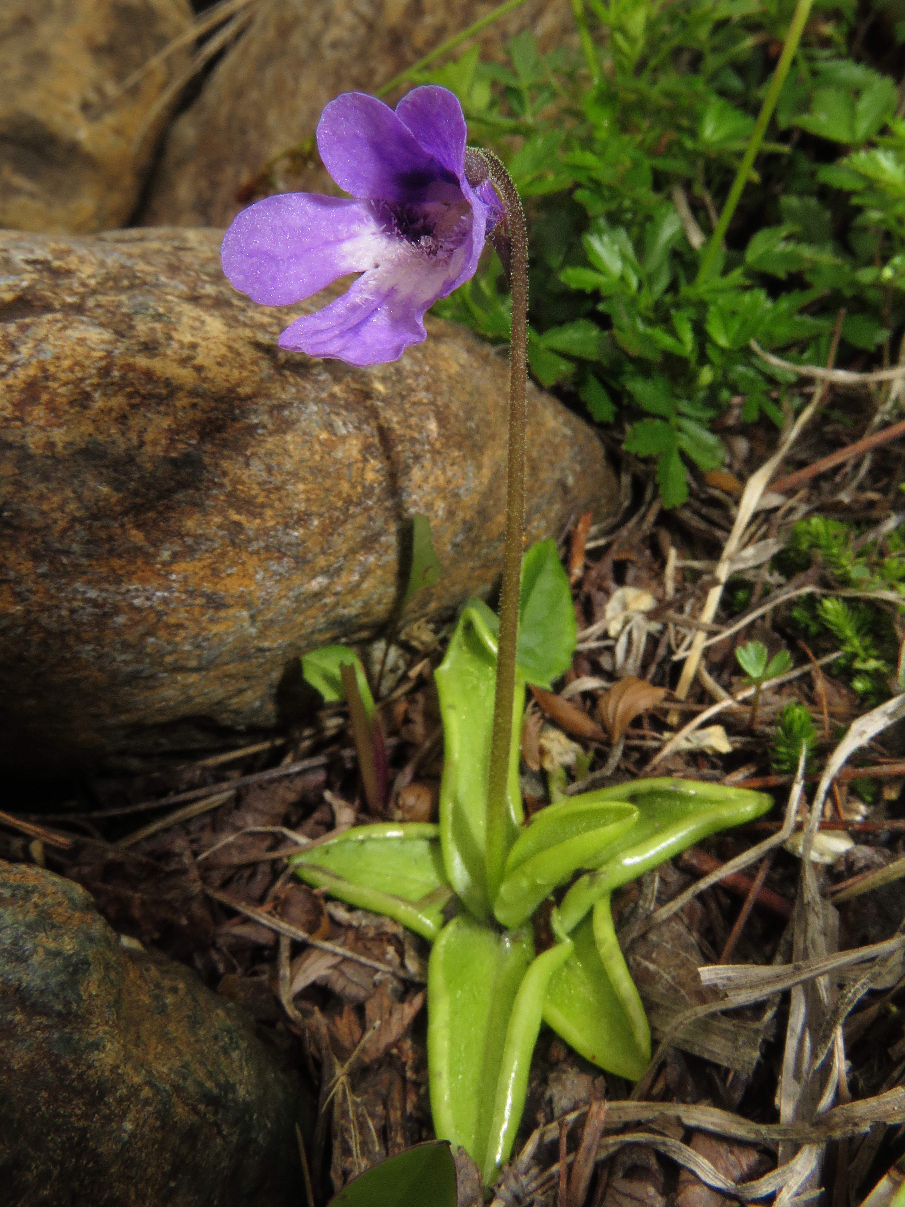 Pinguicula vulgaris, Mount Hayachine, Iwate pref., Japan